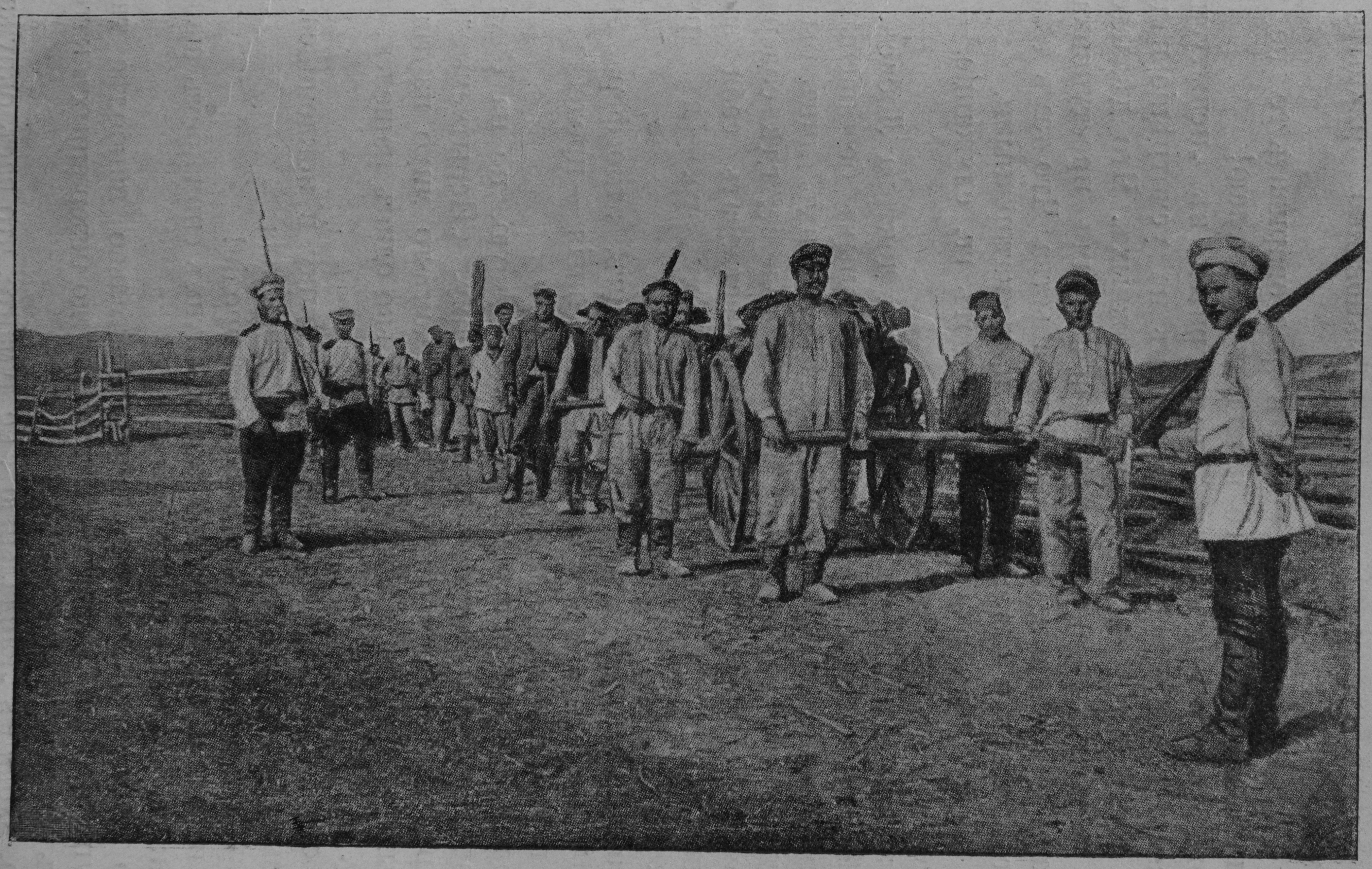 Group of prisoners on work